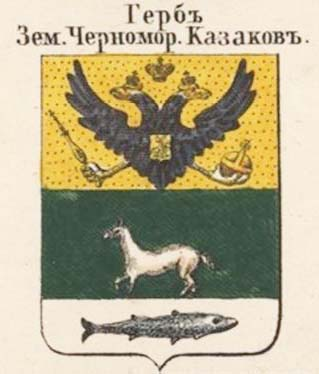 Coat of arms Black Sea Cossacks lands. 1859